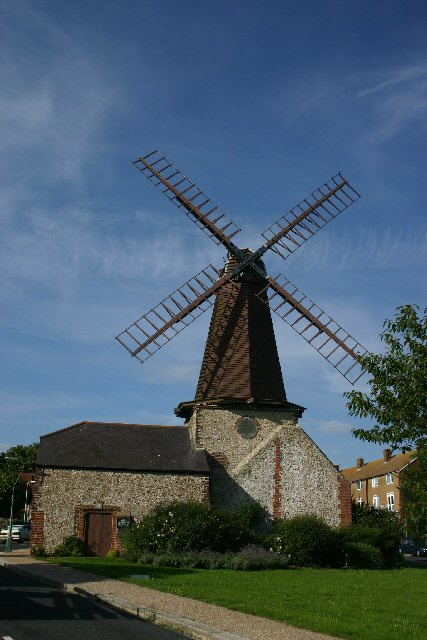 West Blatchington windmill, Holmes Avenue, East Sussex, seen from the south